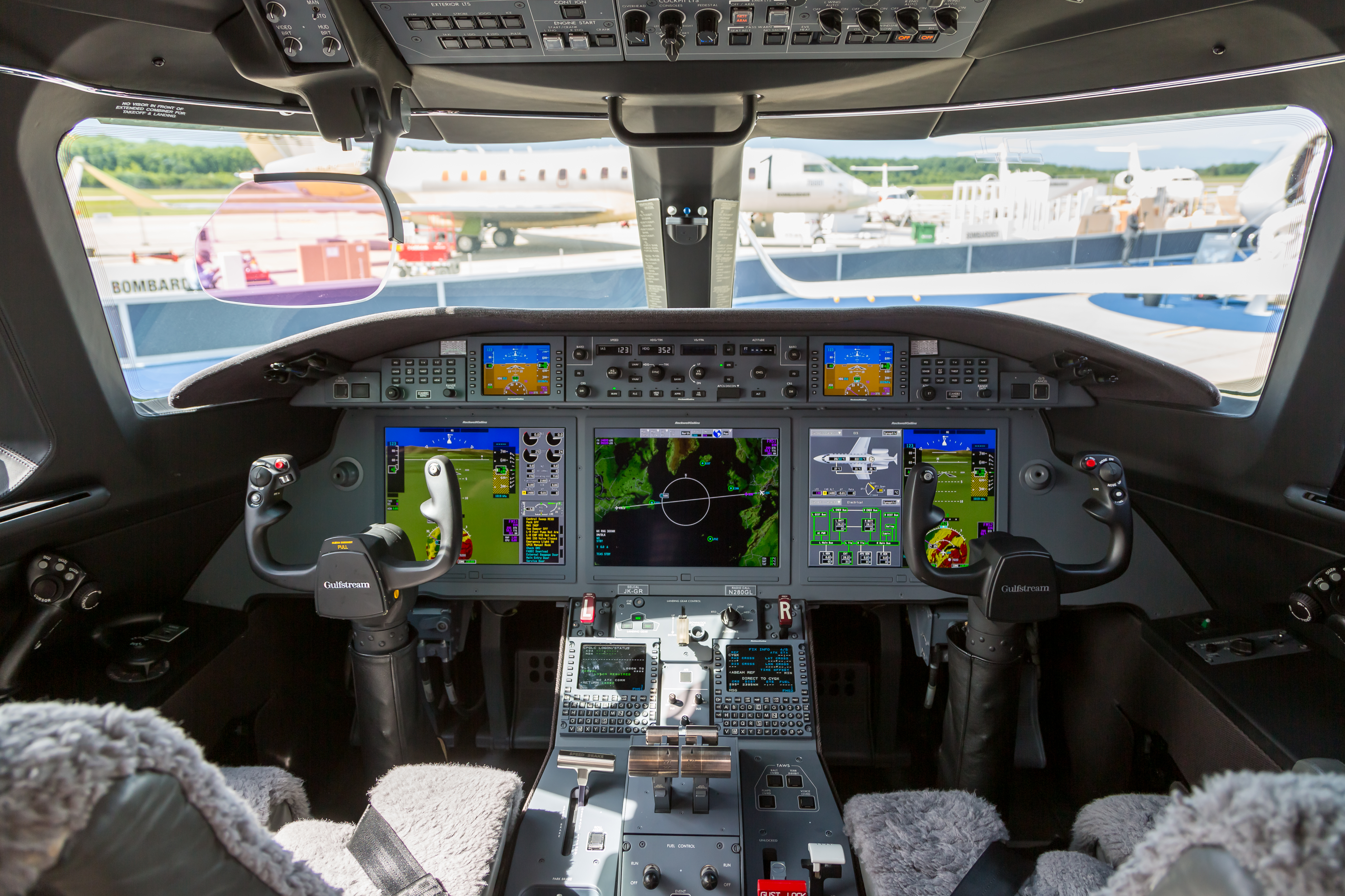 Gulfstream G280, EBACE 2018